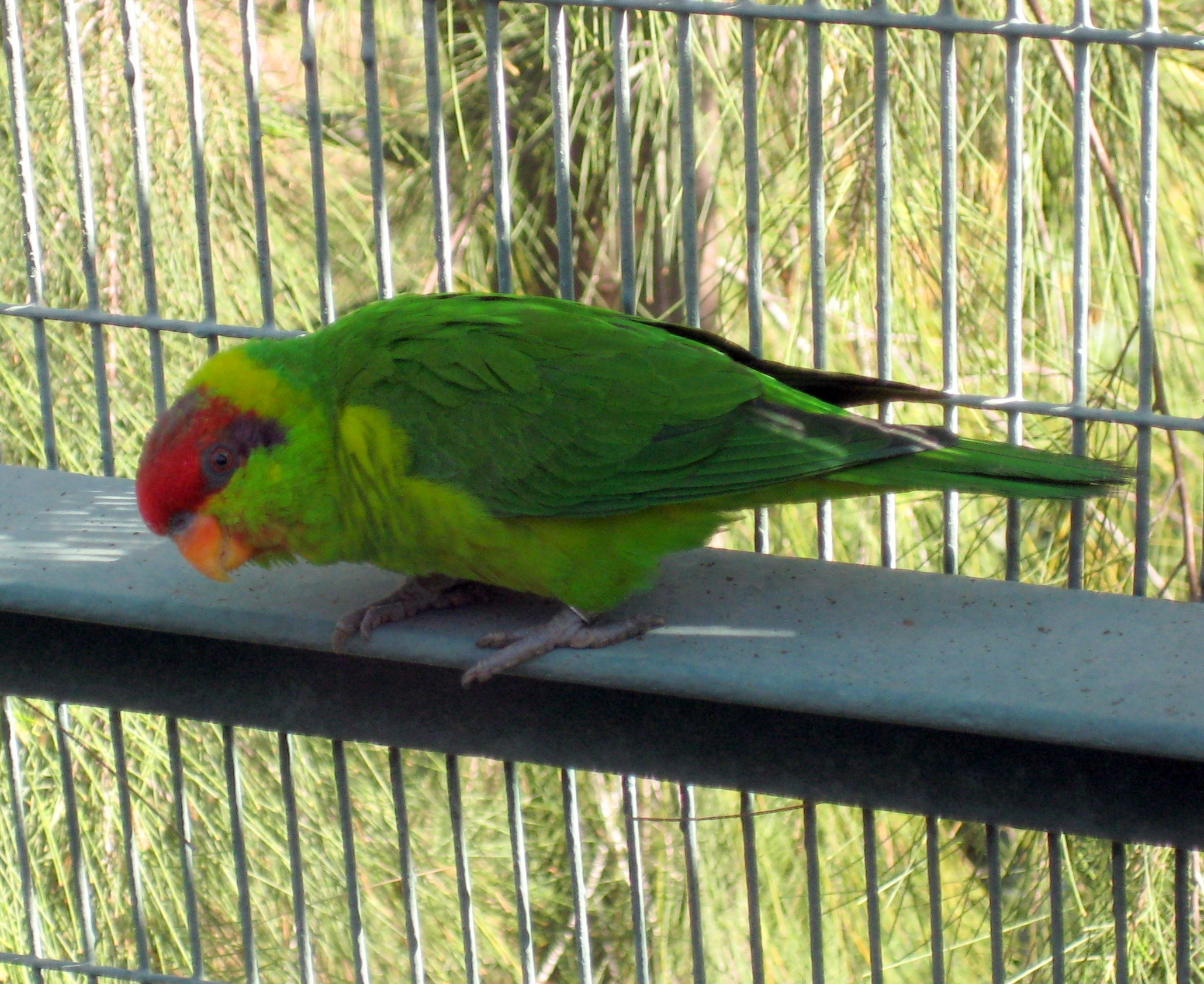 Iris Lorikeet (Psitteuteles iris). On a shelf in a cage at San Diego Zoo.